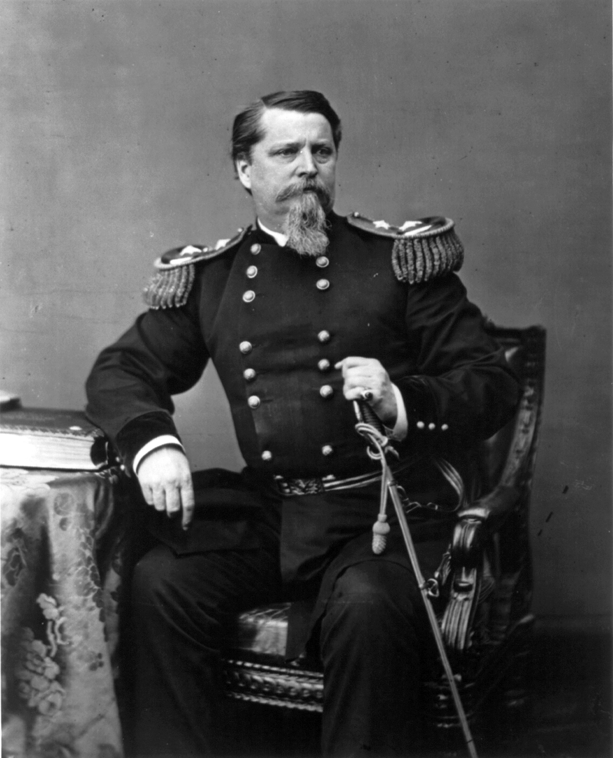 General Winfield Scott Hancock, Union Army